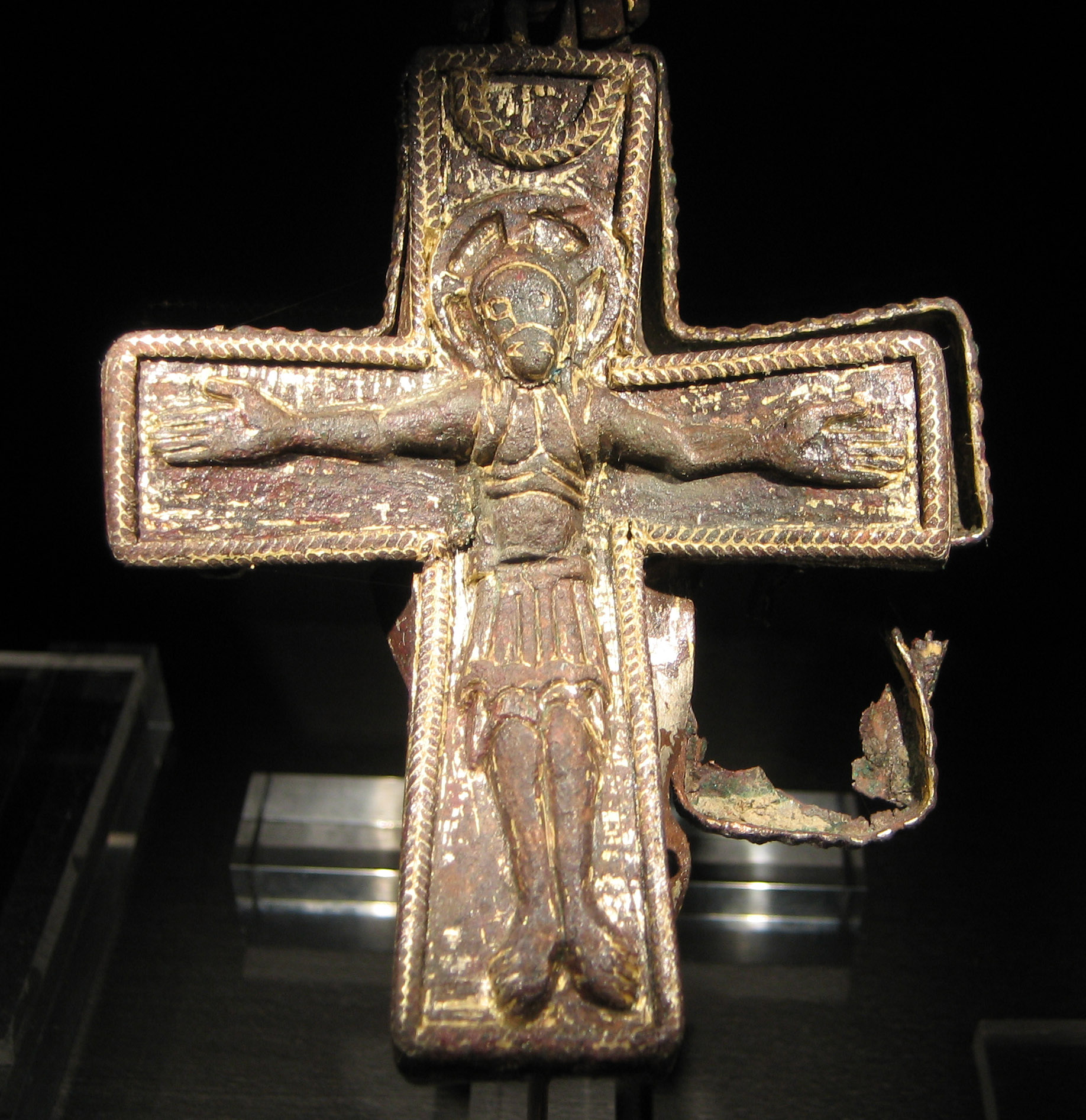 A enkolpion, relic box formed as a crucifix from the viking age found in Uppåkra, near Lund, Sweden; Museum of History in Lund. Photo by the uploader 080903.